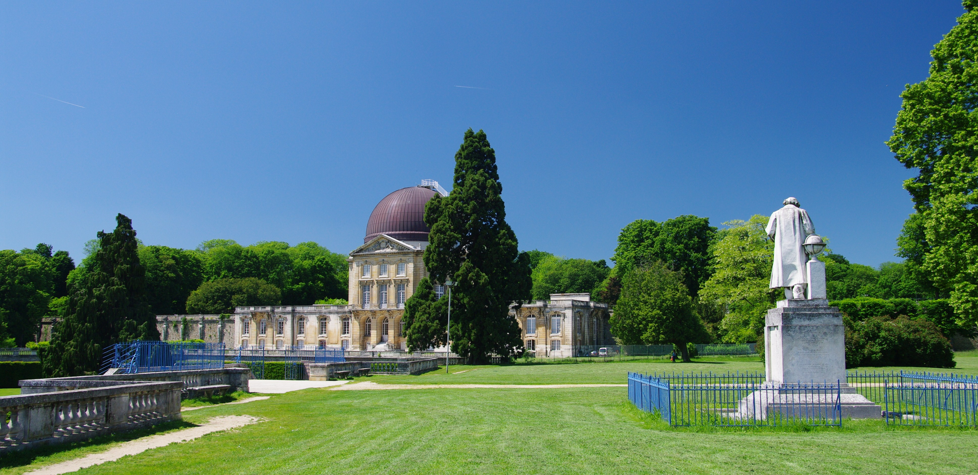 Meudon Observatory